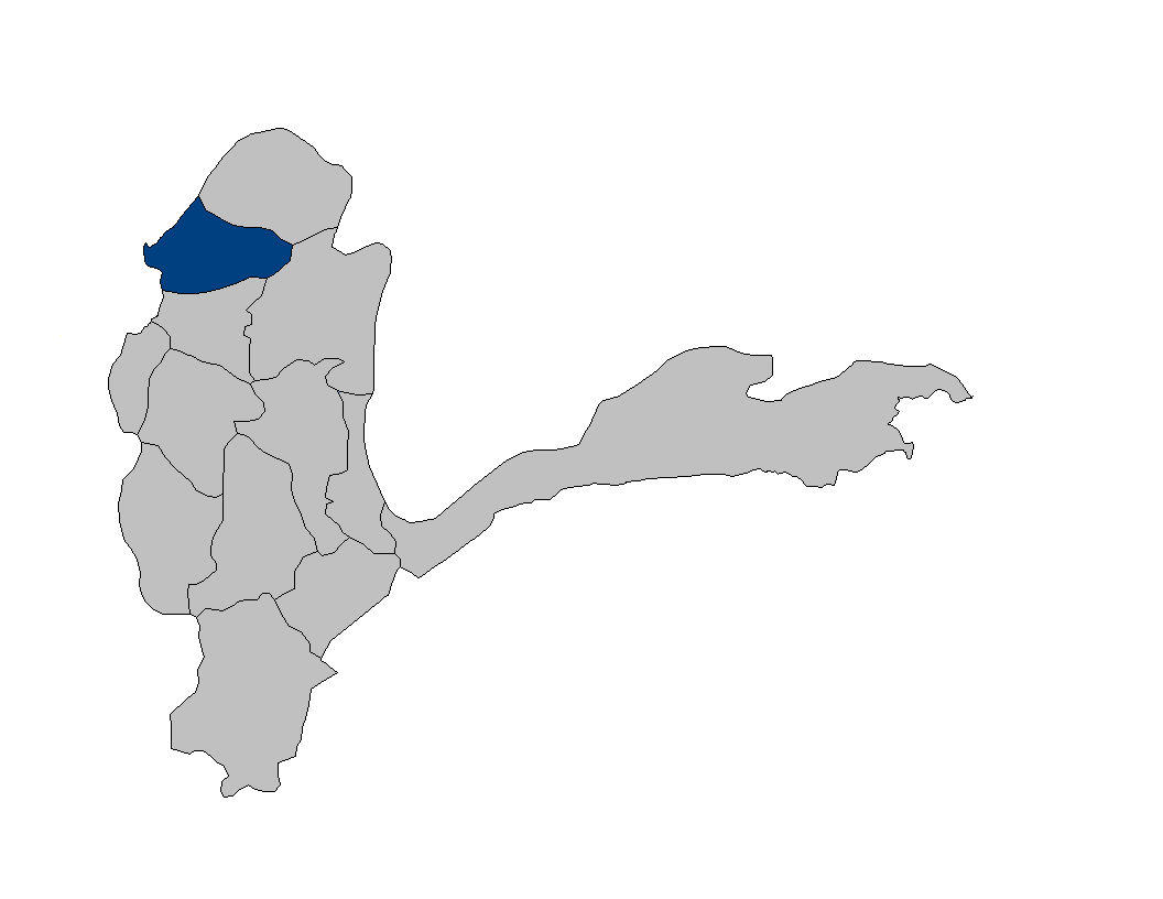 Location map for the Khwahan District of Badakhshan Province, Afghanistan. Original map source: Image:Badakhshan districts.png